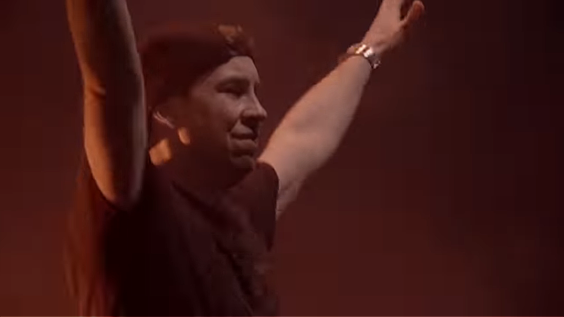 Hardwell as a part of the Mysteryland 2018 promo video.